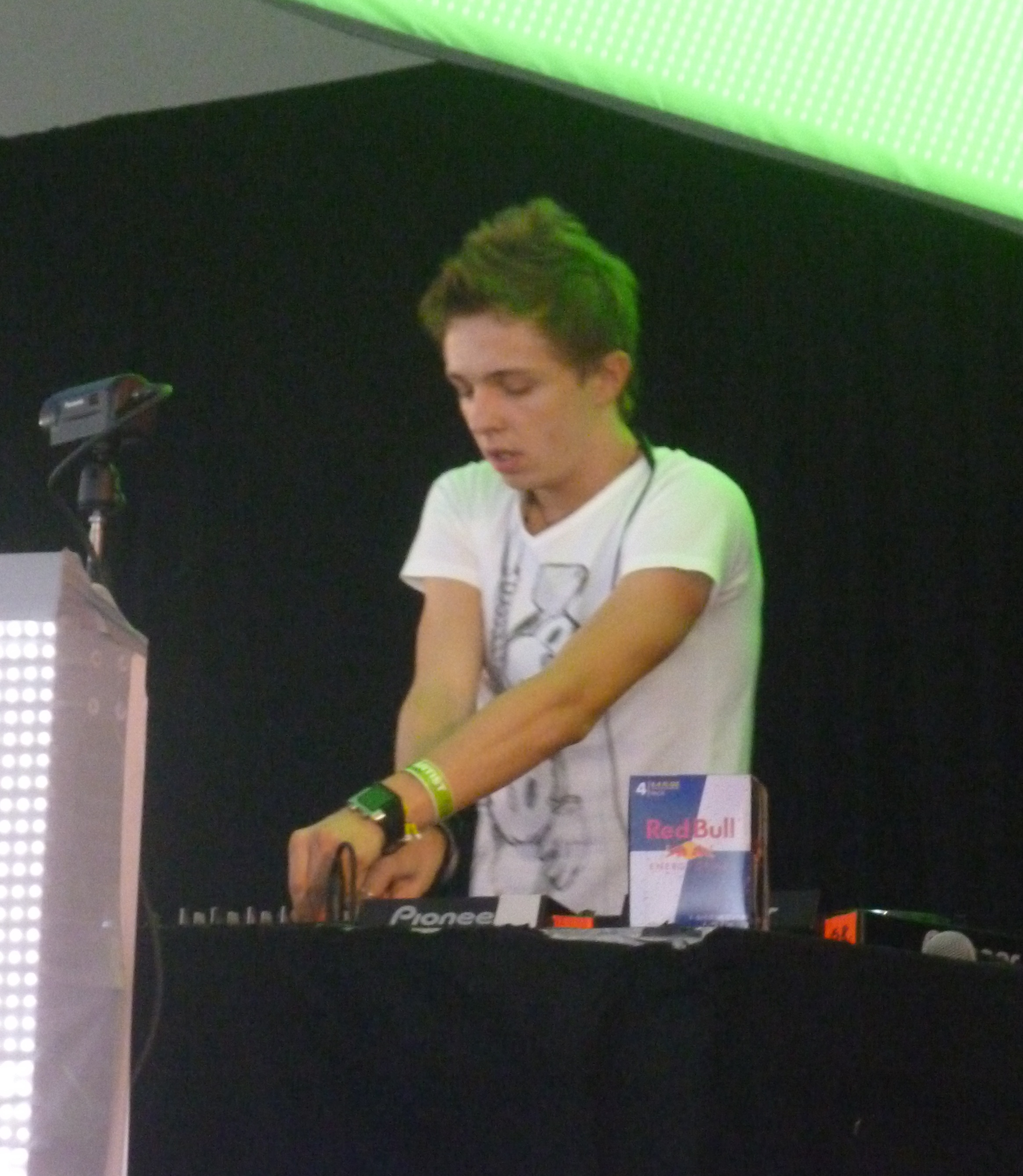 Arty at Electric Zoo Festival 2011